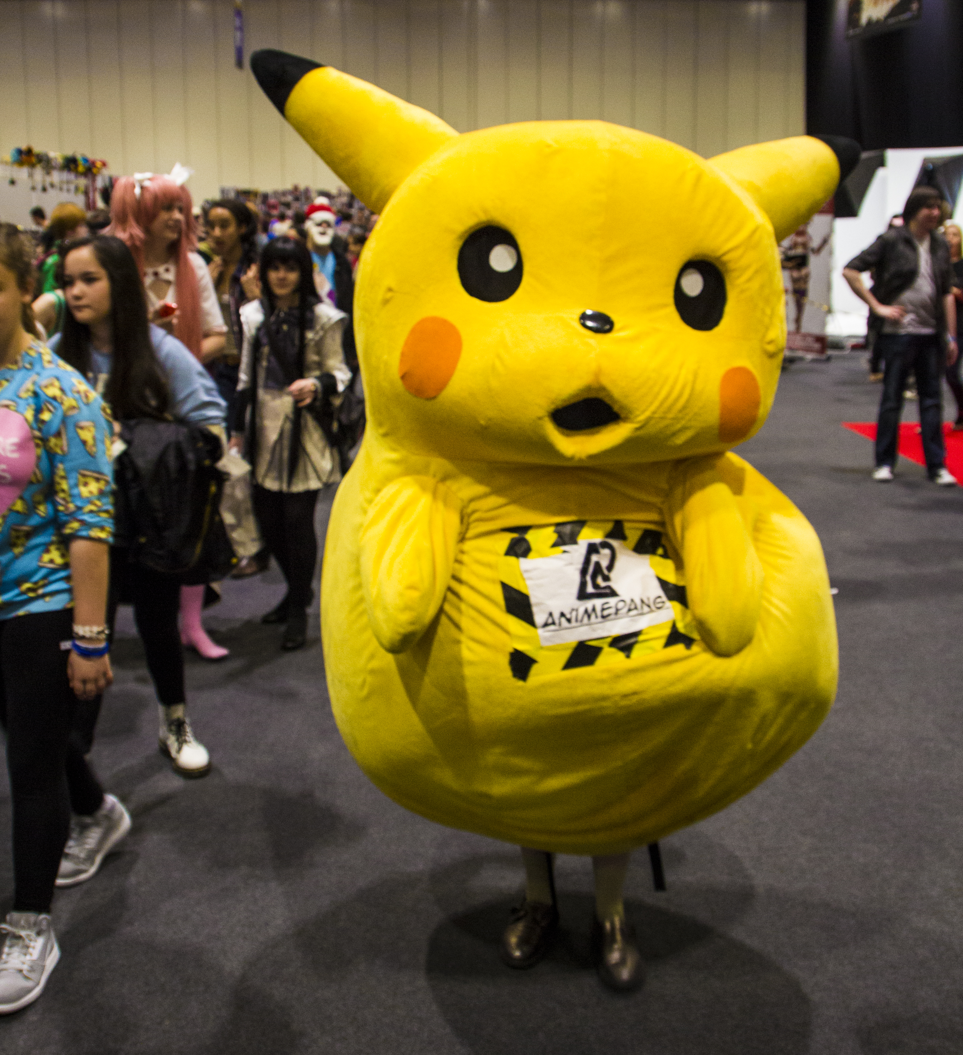 Cosplay at the May 2014 MCM London Comic Con.